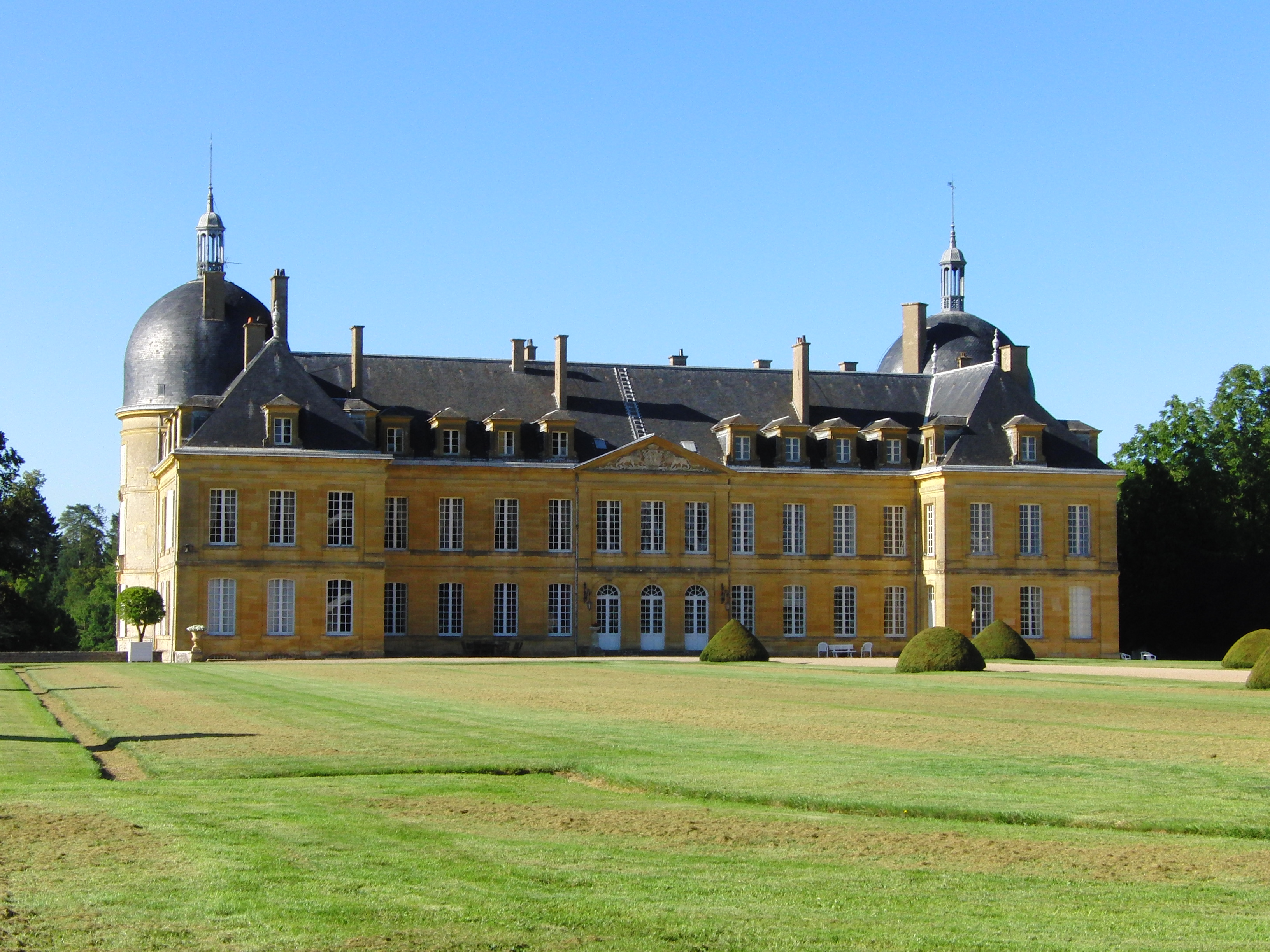 Castle of Digoine, Palinges, Saône-et-Loire, France